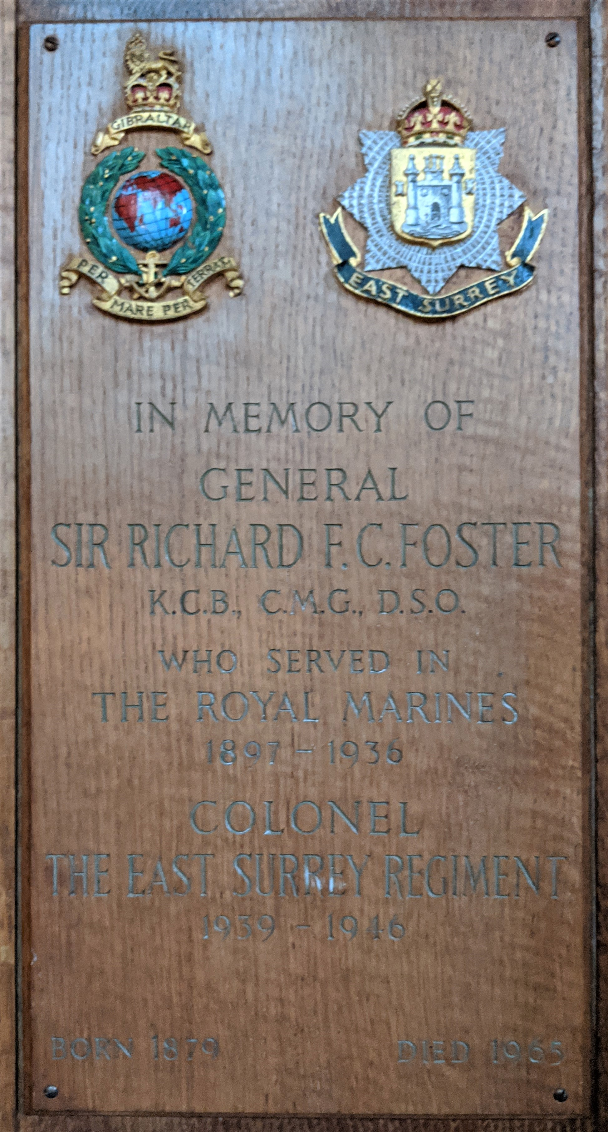 Memorial plaque to General Richard Foster Carter Foster, formerly Royal Marines, in East Surrey Regiment chapel, All Saints Church, Kingston upon Thames, Surrey